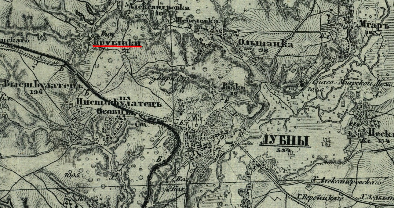 Khutor Kruglyky on the map of Poltava Governorate in 1878